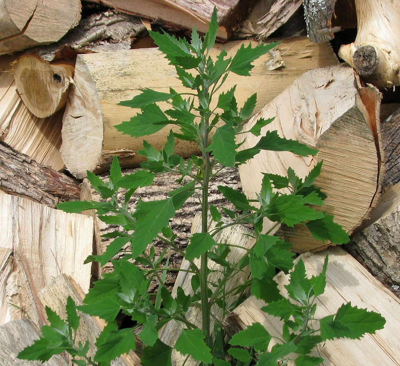 A lambsquarters plant growing by a pile of chopped wood.